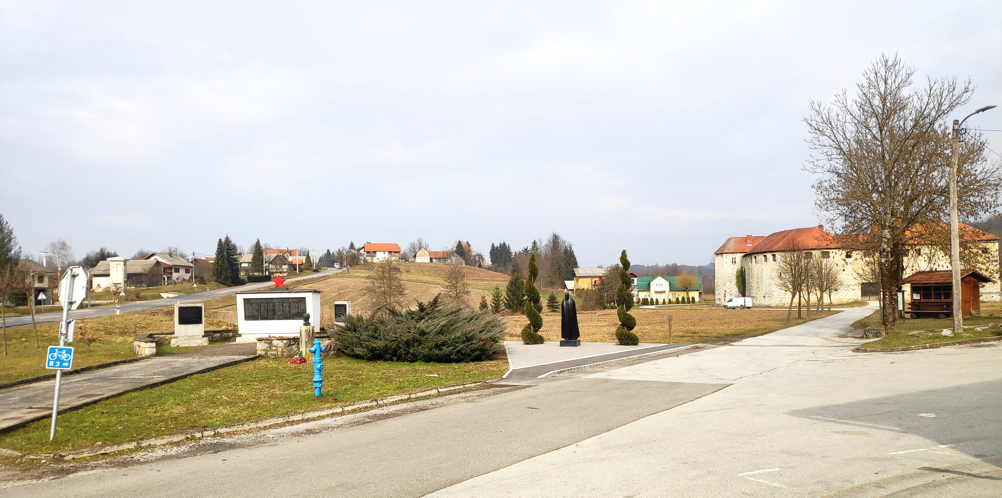 Ribnik (Karlovac)